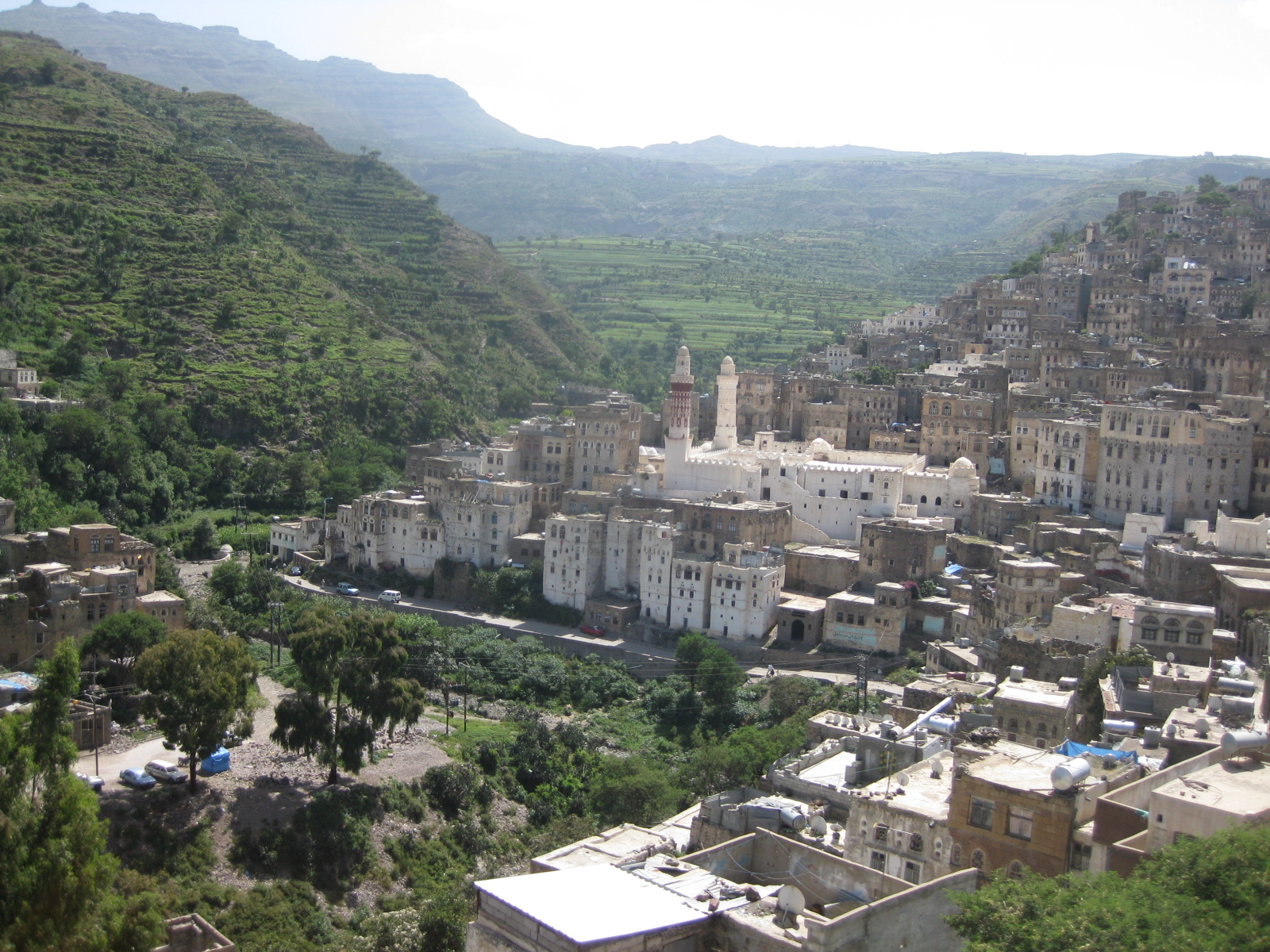 Jibla town